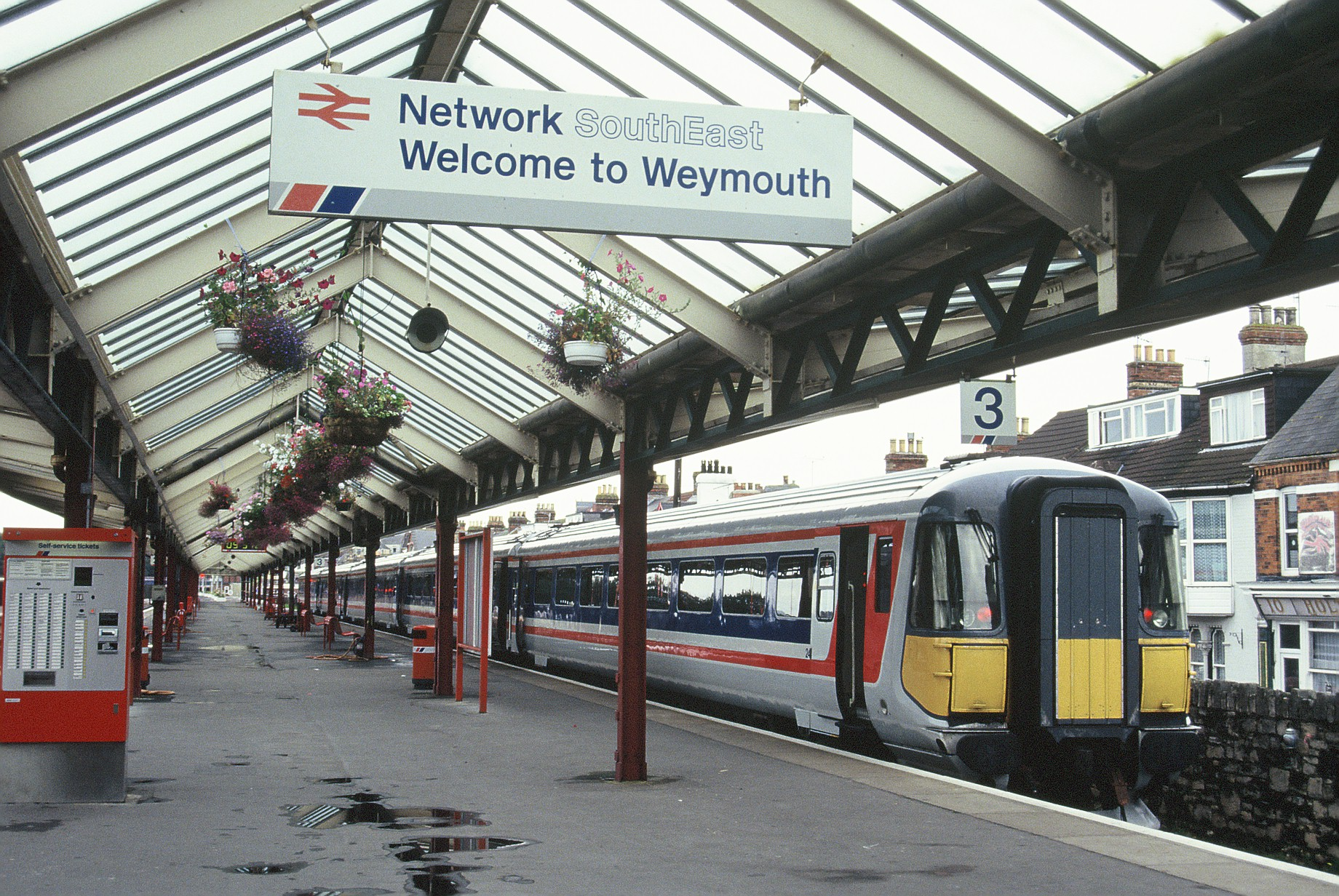 Class 442 in NSE livery at Weymouth